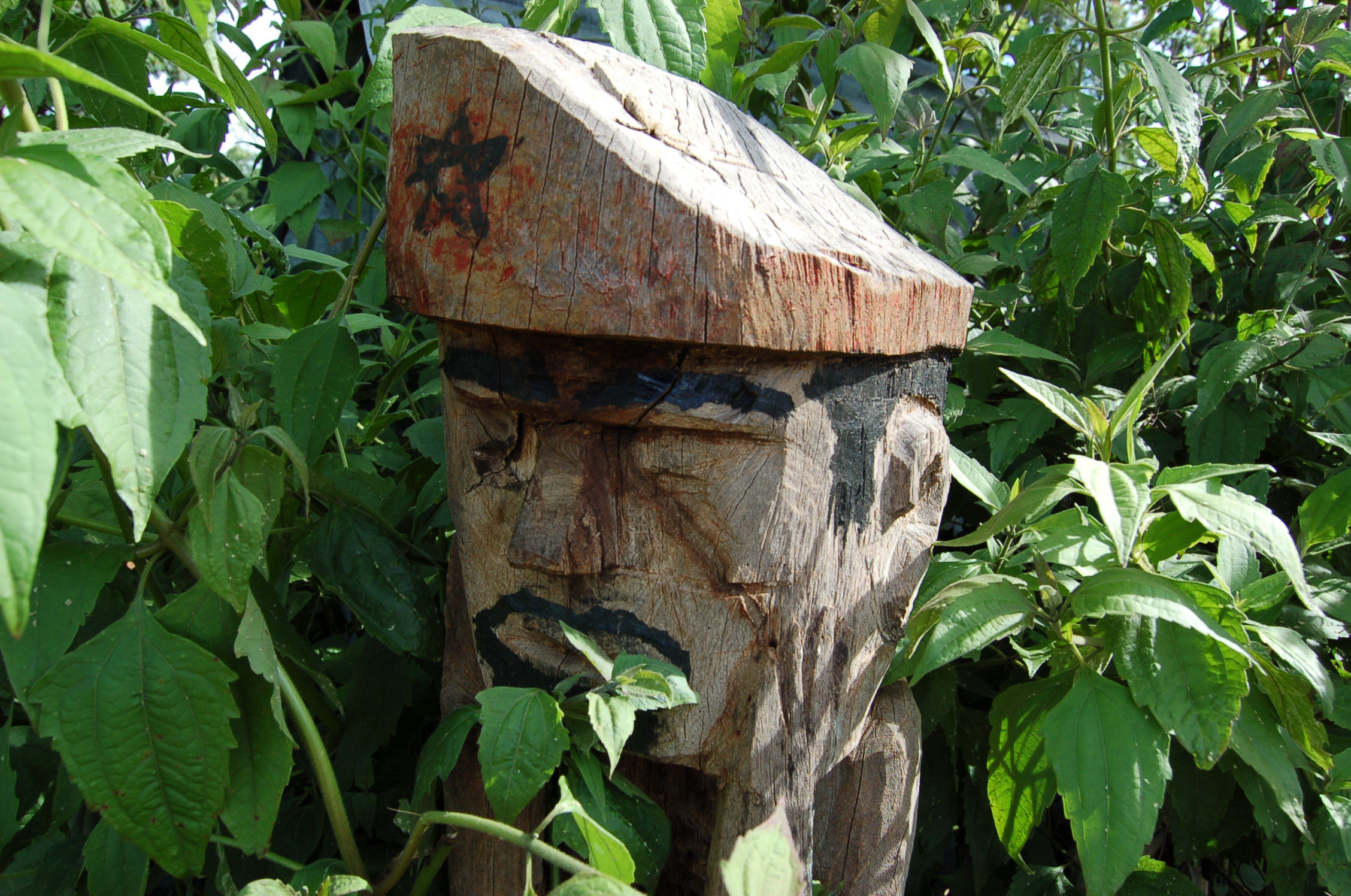 Shot of a headmast guardian spirit sculpture from a Jarai tomb in a small cementery not far away from Kon Tum (Central Highlands, Vietnam) - ISO code VN-E-KT